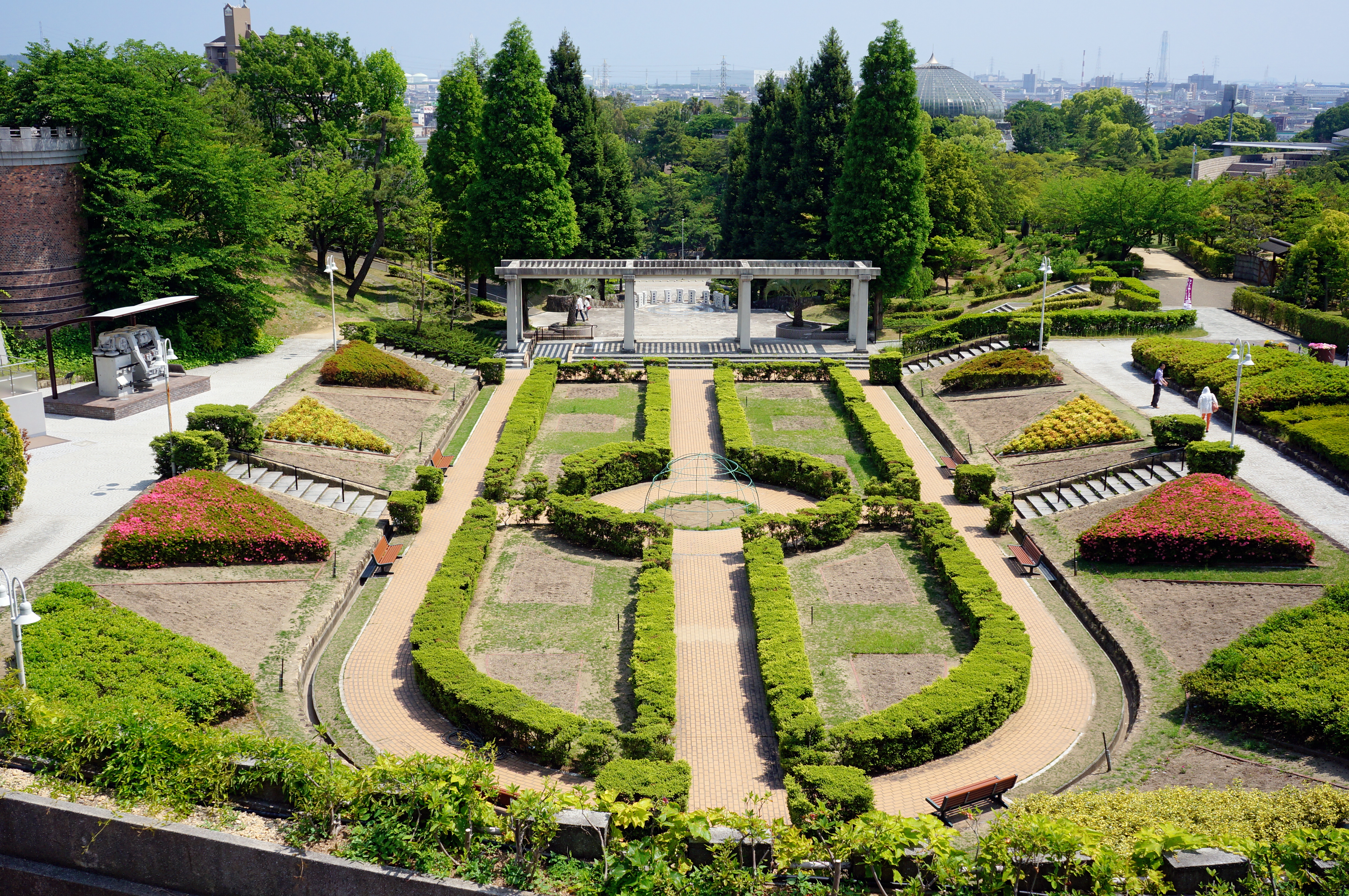 Tegarayama Central Park in Himeji, Hyogo prefecture, Japan.